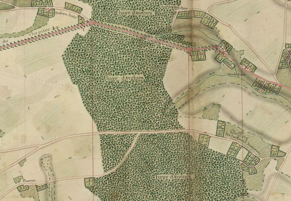 The forest named nommé "les hayes d'Avefnes" and the valley named la "verde valée", on french Trudaine's Atlas, in north of France